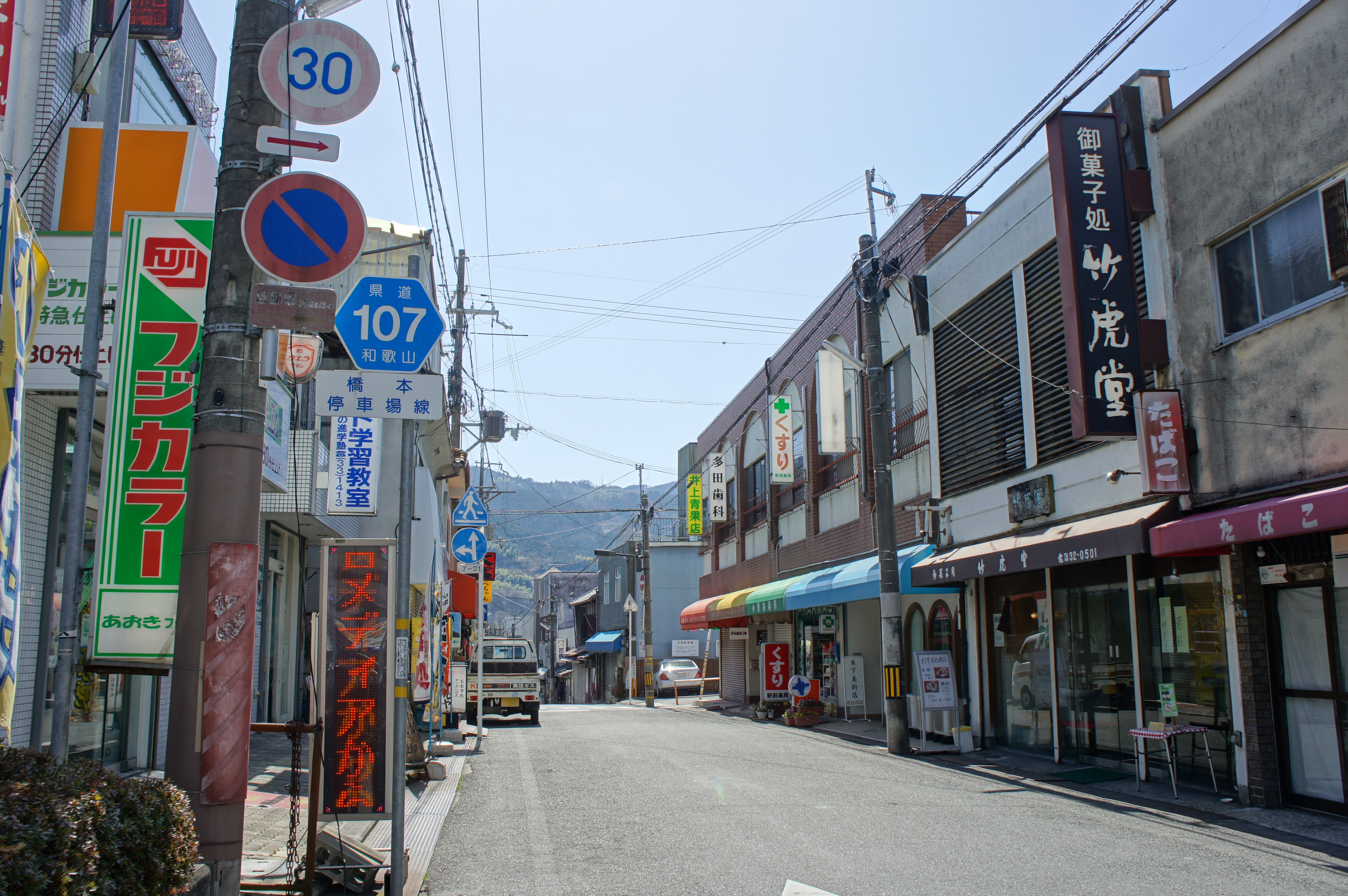 Wakayama prefectural road 107 Hashimoto Station line (Hashimoto, Wakayama, Japan)